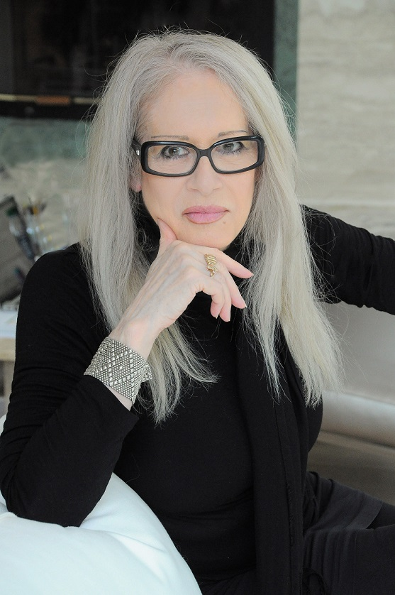 Photo of Penelope Spheeris in 2013